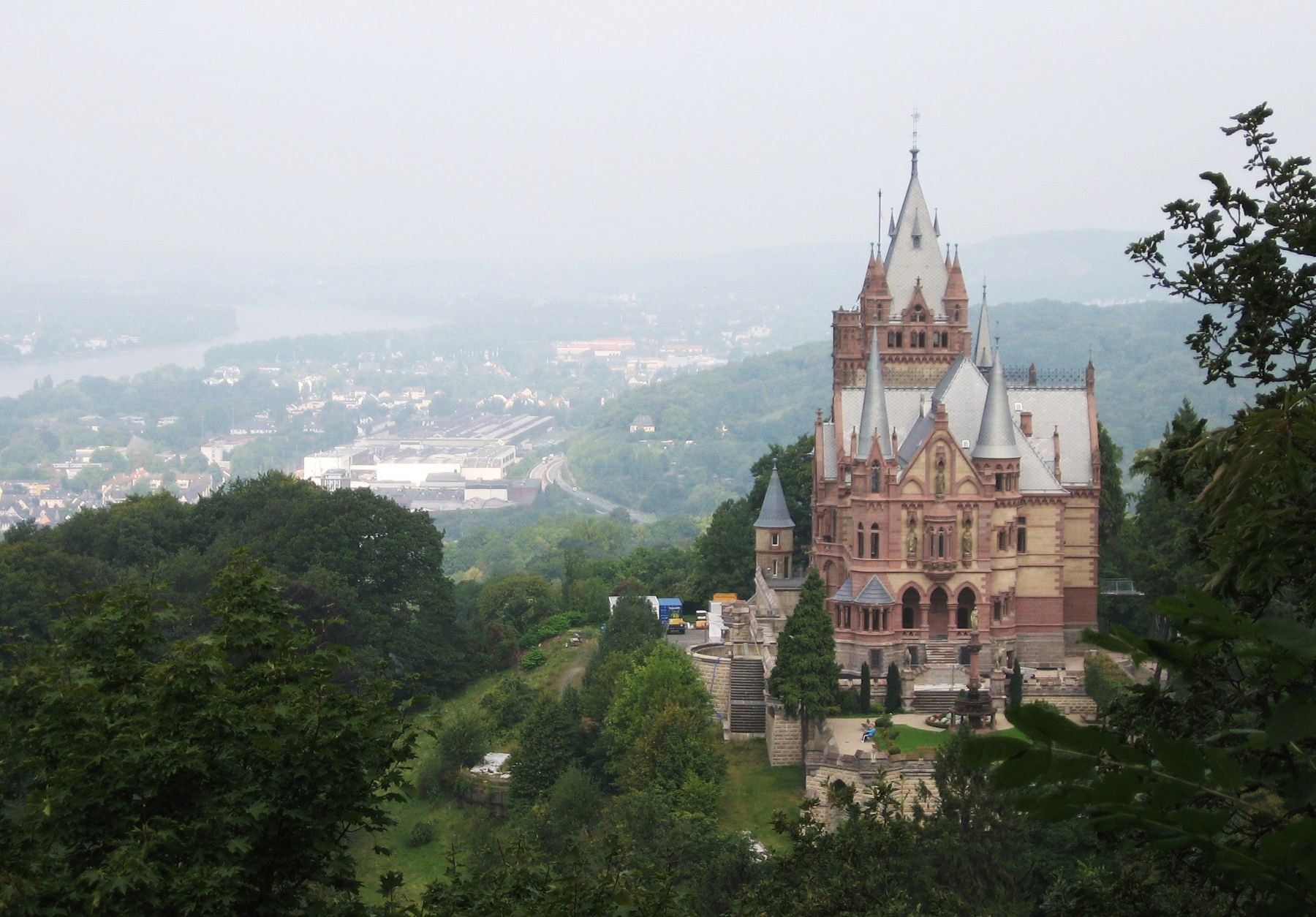 Germany / mountains "Siebengebirge" near Bonn / Germany: castle Drachenfels